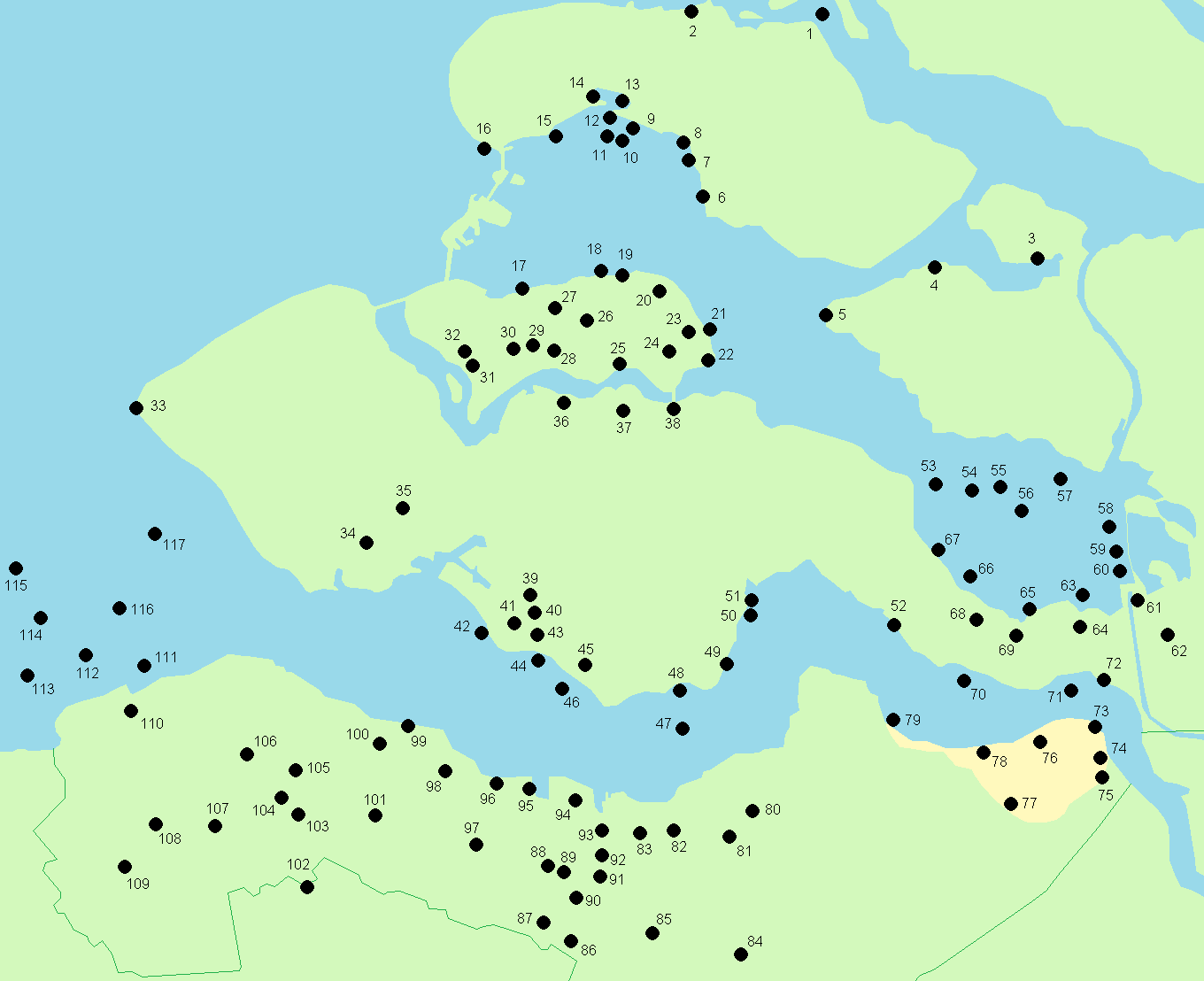 drowned villages in Zeeland